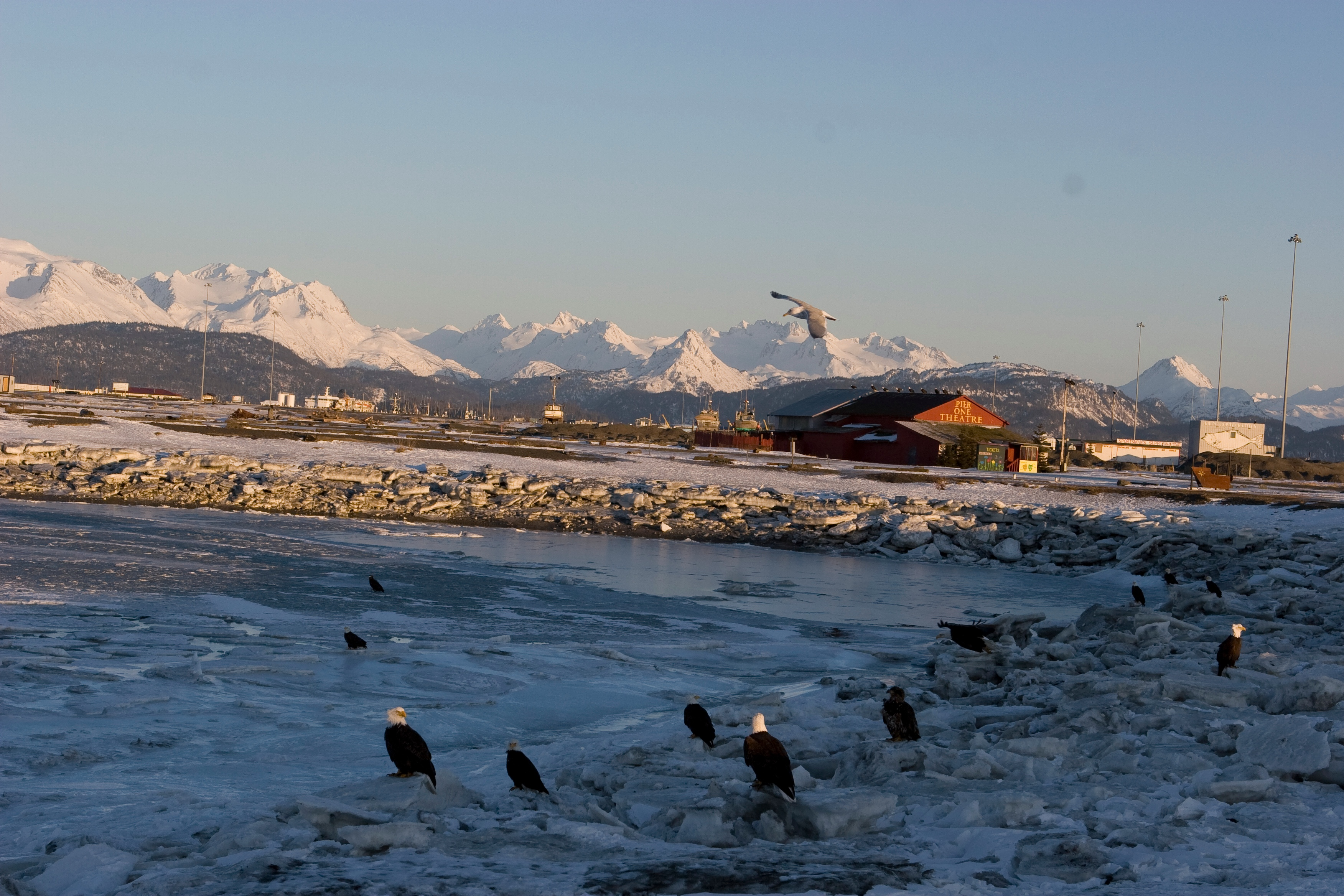 Ealges on the spit in Homer, Alaska